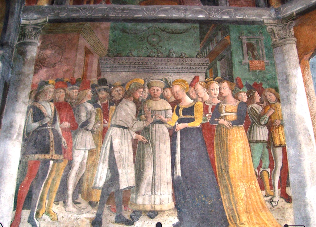 Church of the Annunciata. Piancogno, Val Camonica